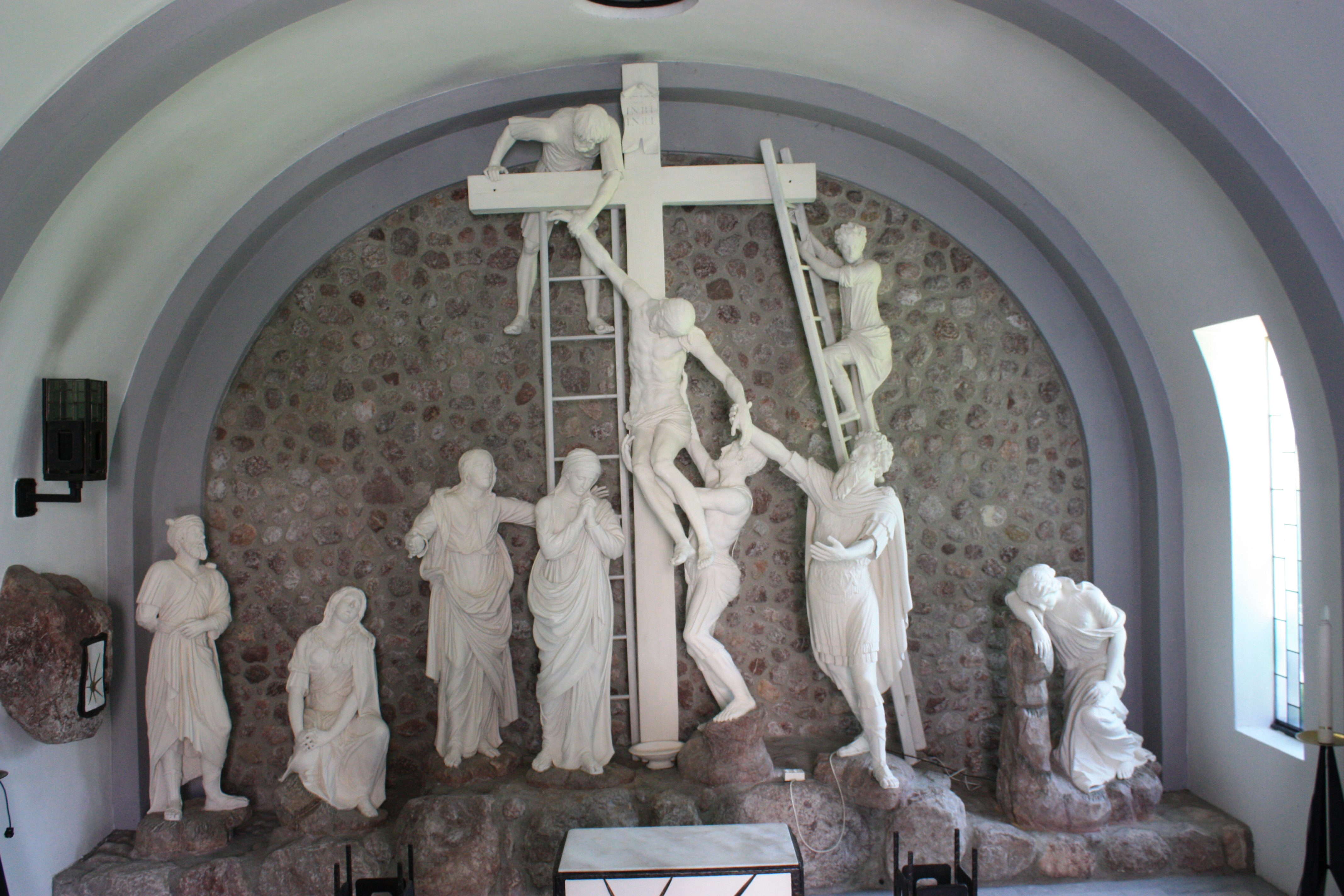 Monastery Ossiach - Descent from the Cross Community:Ossiach District:Feldkirchen State:Carinthia Country:Austria